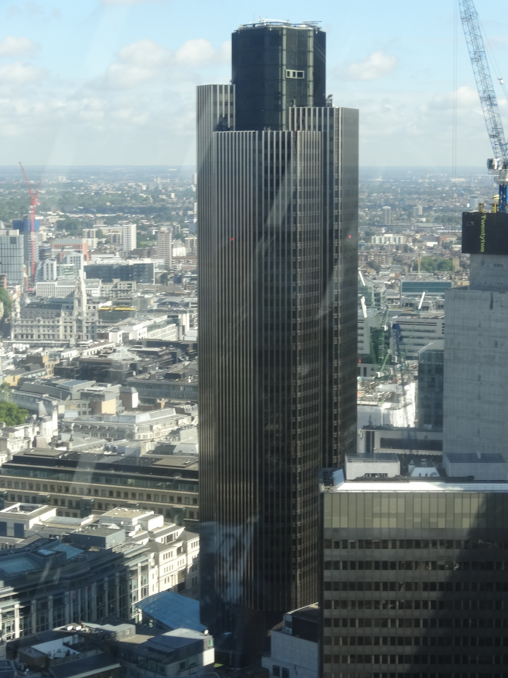 Views to the north from 20 Fenchurch Street. Tower 42